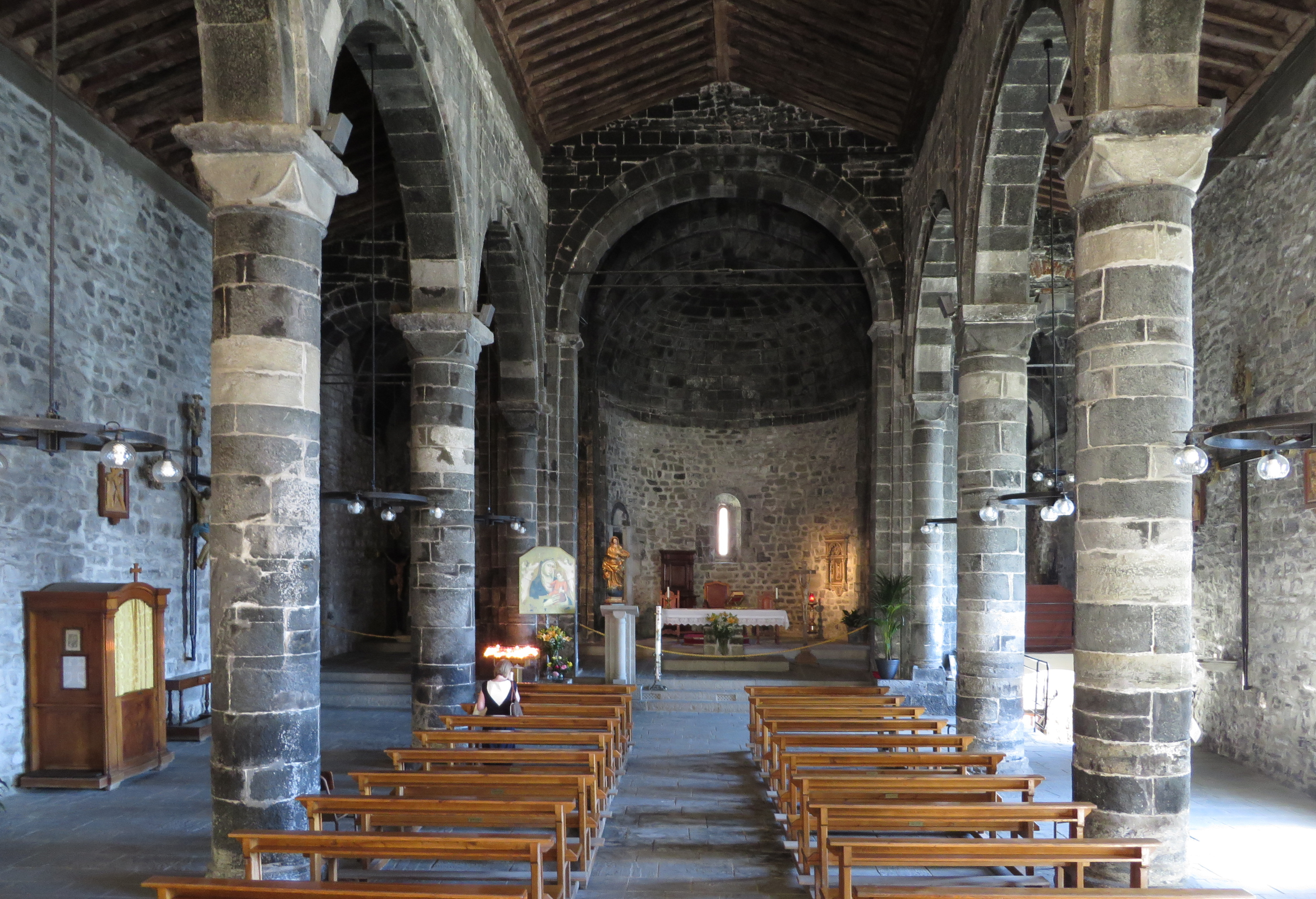 Church Santa Margherita, Vernazza, Liguria